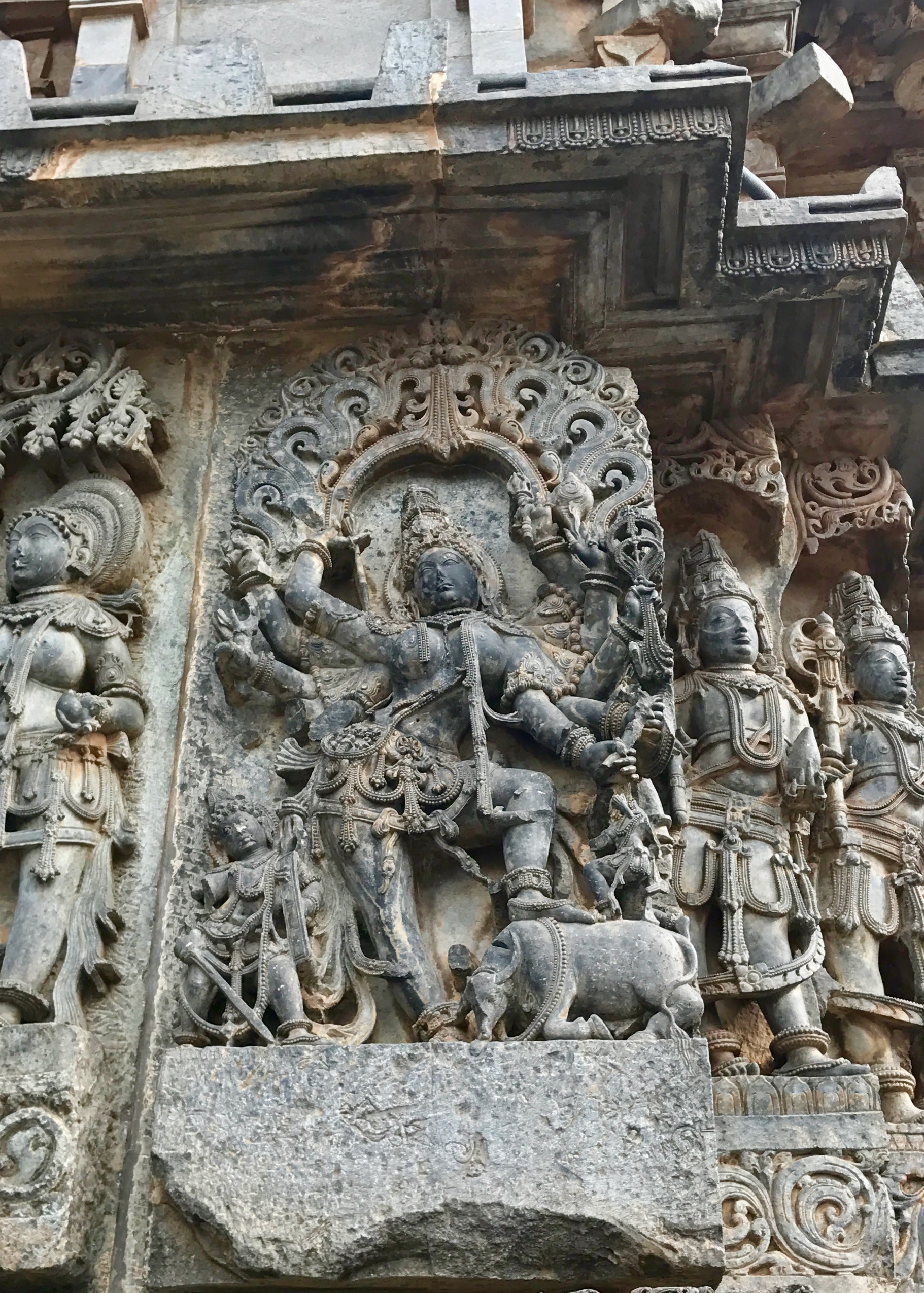 The Hoysaleswara Hindu temple is dedicated to Shiva. It was built in the first half of 12th century in Halebid (previously called Dwarasamudra, Hale bidu means "old capital"), sponsored by King Vishnuvardhana of the Hoysala Empire. During the early 14th century, Halebidu temple site along with others were sacked, looted and much artwork damaged (particularly nose/face, hands) by Muslim invaders from northern India (Khilji dynasty and Tughlaq dynasty of Delhi Sultanate). The temple belongs to the Shaivism tradition of Hinduism, yet reverentially presents its Vaishnavism and Shaktism tradition legends and ideas. The relief panels present legends from the Ramayana, the Mahabharata, the Puranas. Vedic deities such as Agni, Indra and Surya, various avatars of Vishnu, the Hindu goddesses such as Saraswati, Lakshmi avatars, Durga, Kali among others are presented. The carving is three dimensional where reliefs often emerge as statues with depth. Panels are continuous, with one perspective showing one part of the legend, a perpendicular perspective of the same column or wall or corner showing another part of the same legend. The carving material was soapstone.